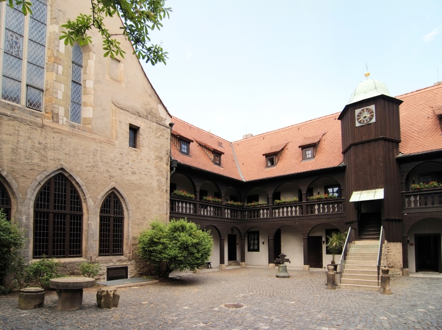 Augustinerkloster in Erfurt 'Hof des Renaissancetraktes